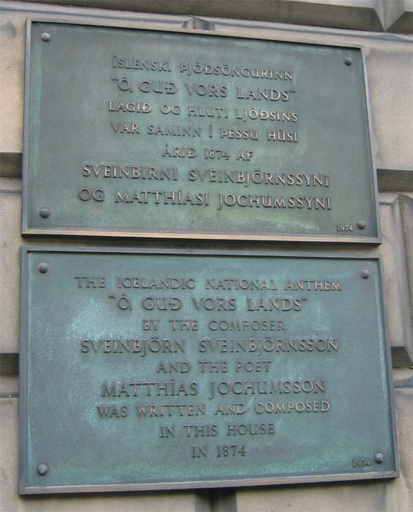 Plaque outside 15 London Street, Edinburgh, Scotland